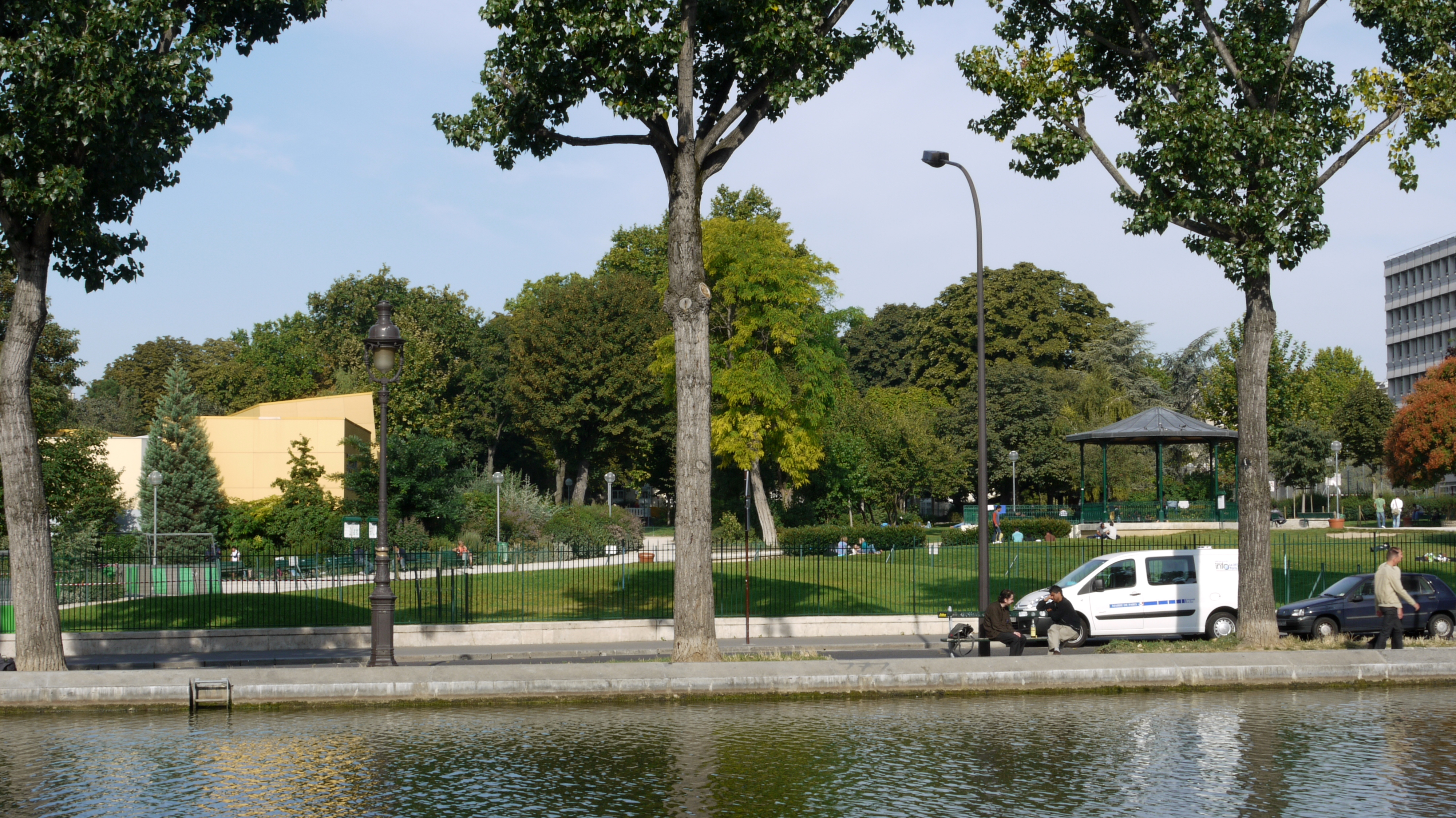 Jardin Villemin, Paris